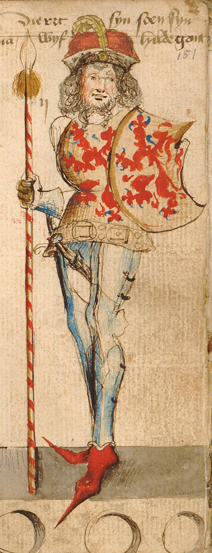 Dirk II, Count of Holland